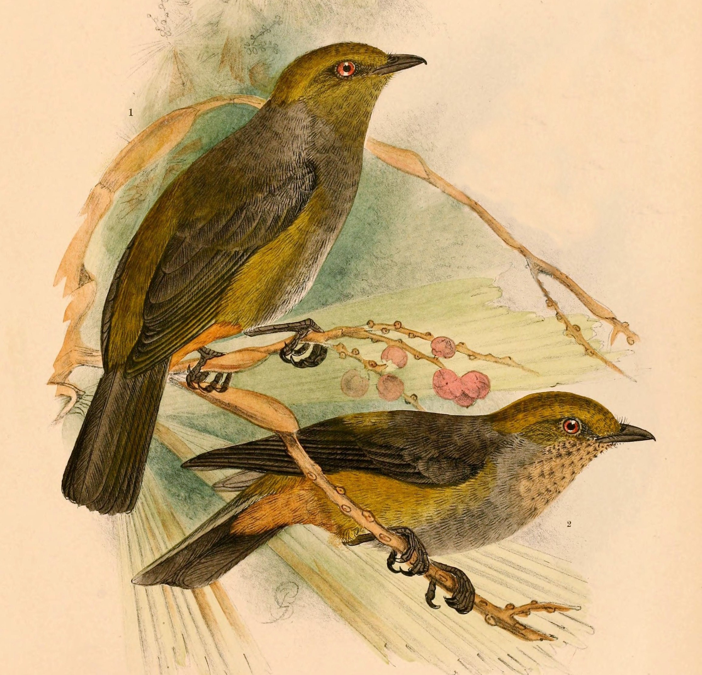 « Pachycephala bonthaina » = Hylocitrea bonensis bonthaina (Subspecies of Olive-flanked Whistler) 1. Male 2. Female